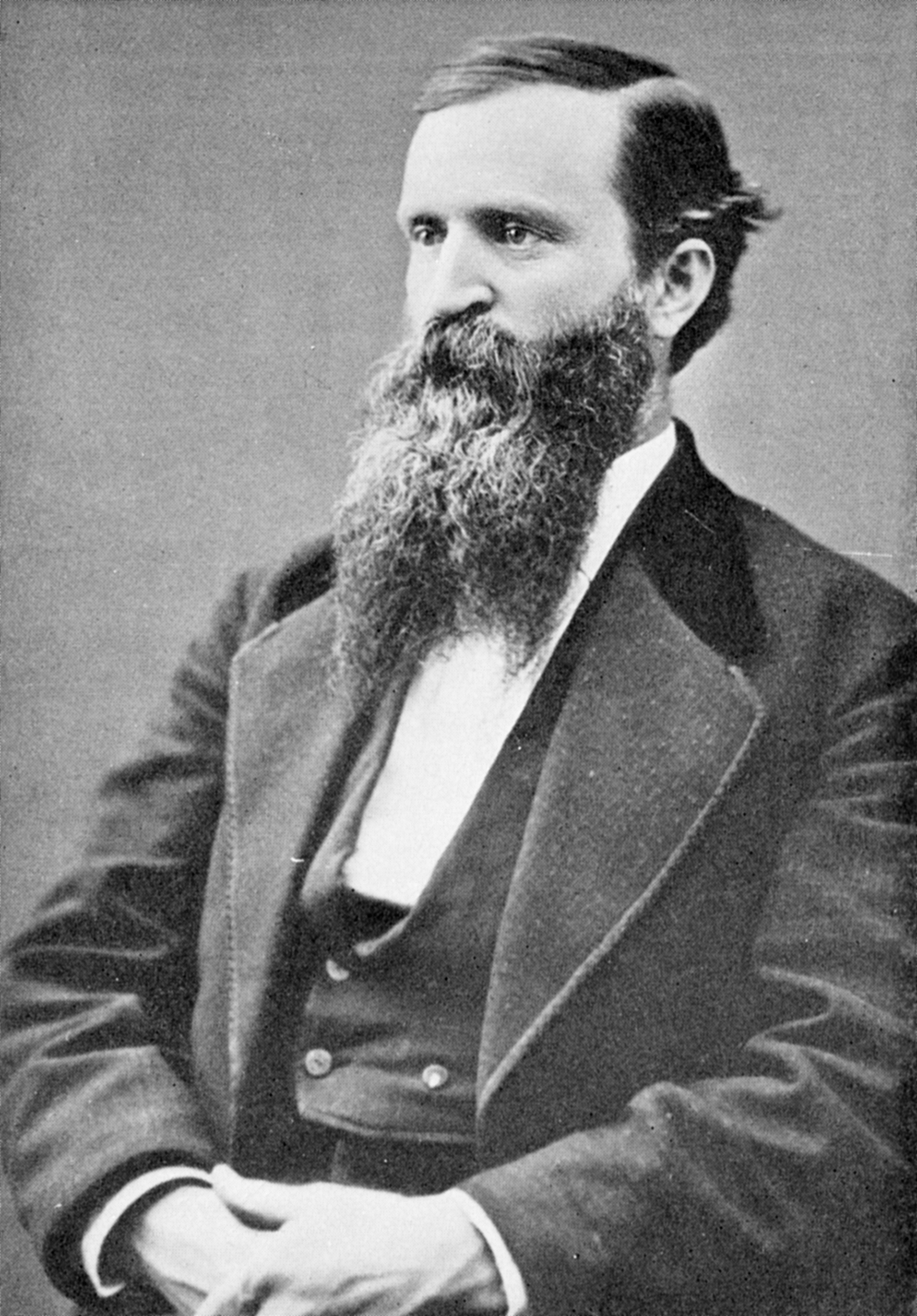 James B. Weaver, 1878